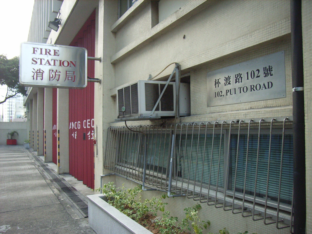 屯門消防局, Tuen Mun Divisional Fire Station, 102 Pui To Road, 杯渡路, Tuen Mun, New Territories, Hong Kong. (Photo created by User:TUmuMATo)。